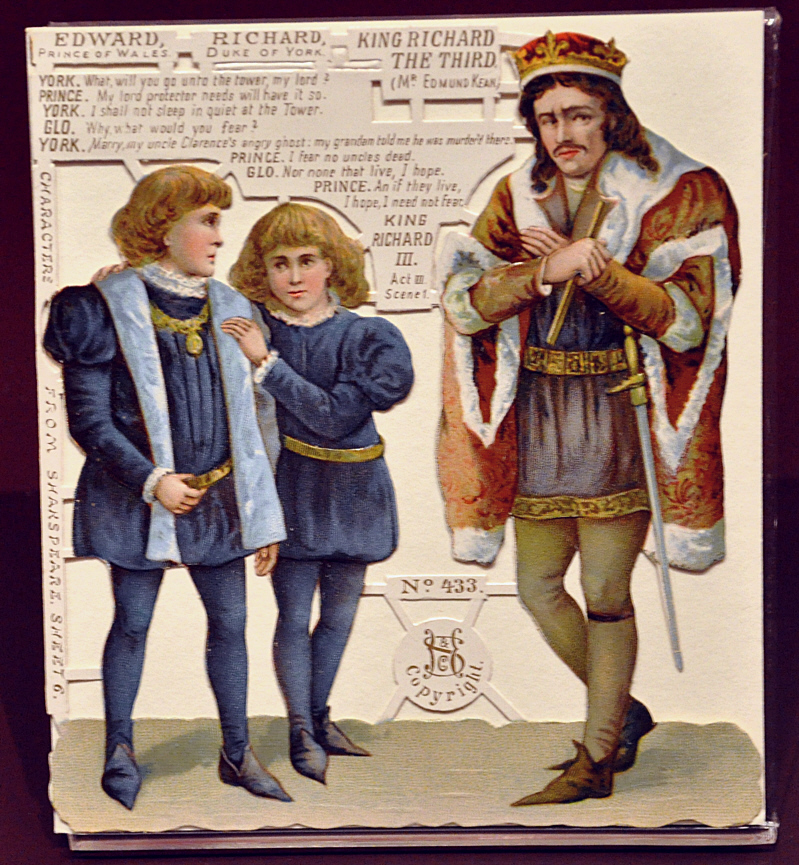 Scrap for a Shakespeare character card: Richard III., c. 1890; Printer: Siegmund Hildesheimer & Co. Victoria and Albert Museum, London, Museum number: S.63-2008, Link